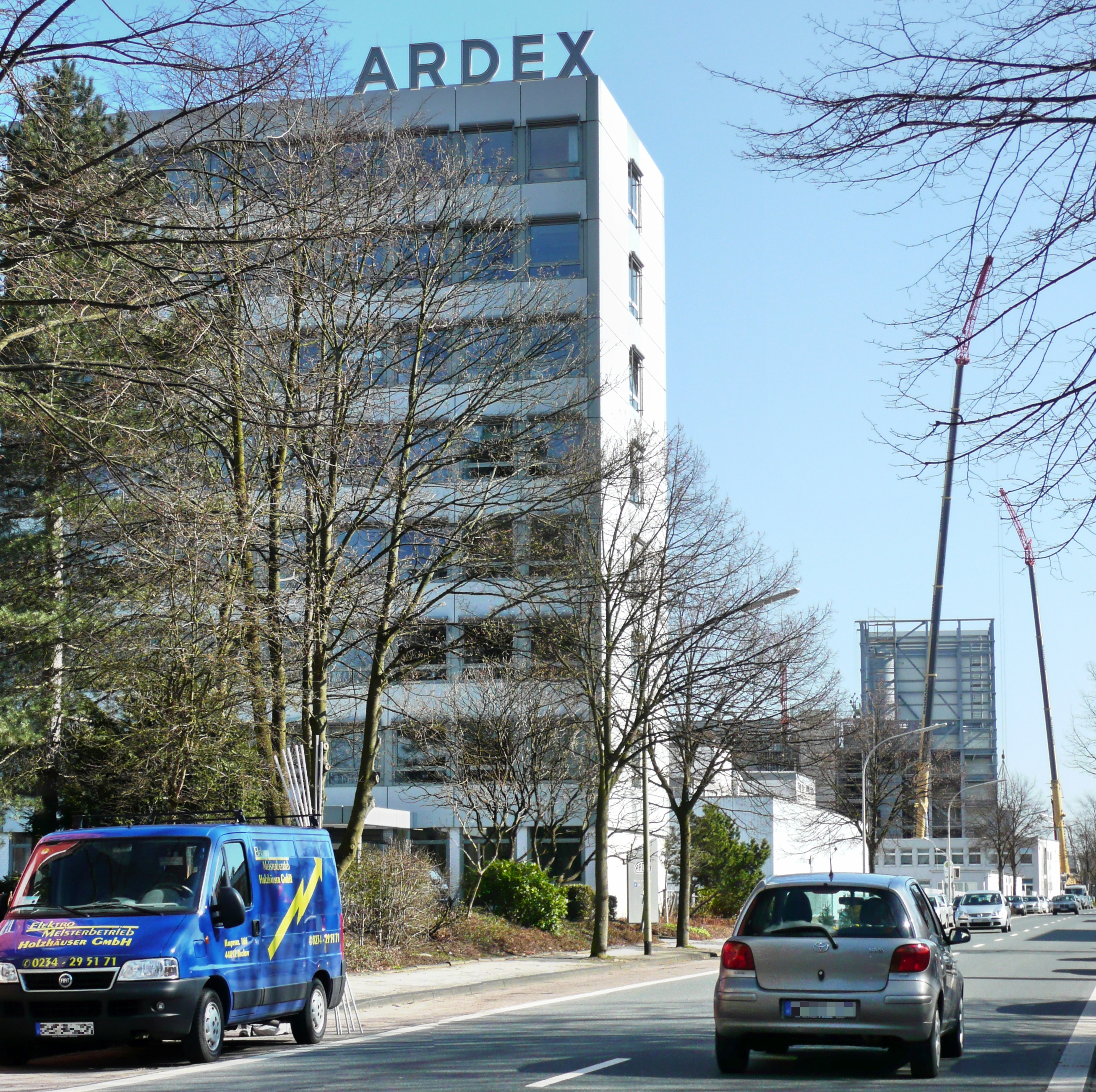 Ardex headquarters in Witten, in the back final assembly of a new storage building